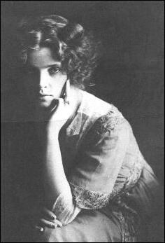 Maud Allen, Canadian-American actress-dancer, circa 1910s.